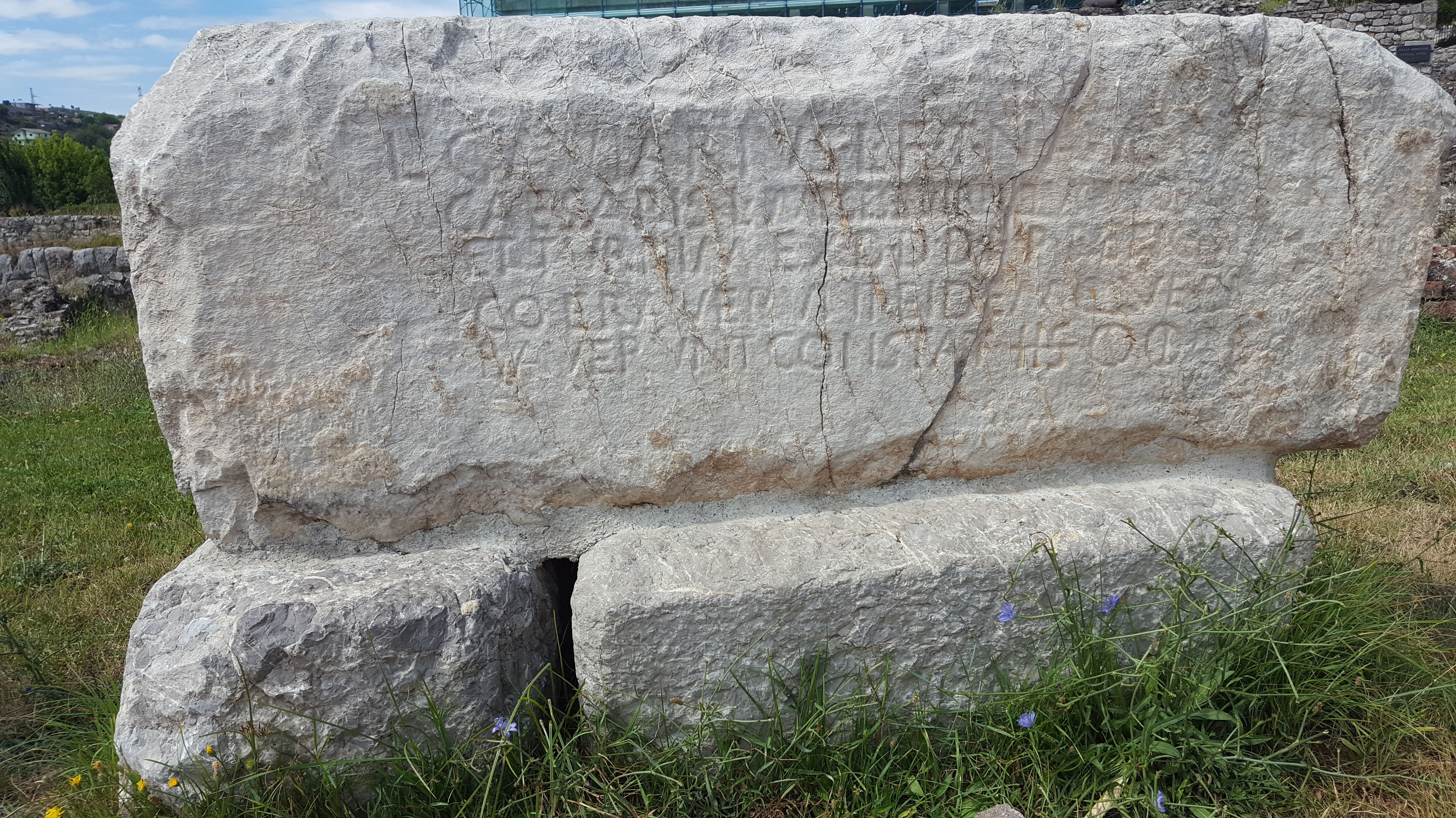 Engraved stone unearthed during the Archaeological Excavations in 1975-1980 by Frano Prendi and Koço Zheku.